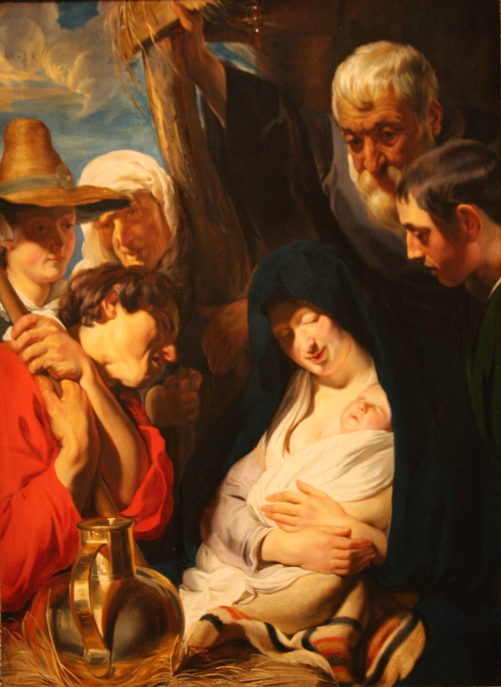 Painting "The Adoration of the Shepherds", by Jacob Jordaens, 1618. National Museum, Stockholm (Sweden).